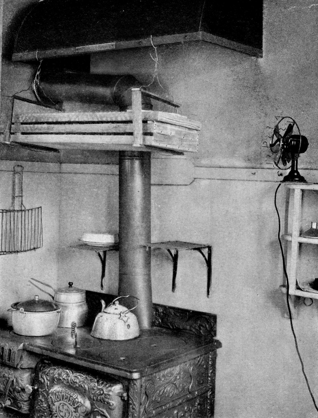 THREE LONG, NARROW TRAYS MADE OF FLY SCREEN AND LATHS AND HUNG UP IN A CHEAP SLING OF LATHS AND FENCE WIRE TO THE HOOD OF A KITCHEN STOVE. It is out of the way of the cook's head and utilizes waste heat, and the vegetables put this distance from the top of the stove do not get too hot.